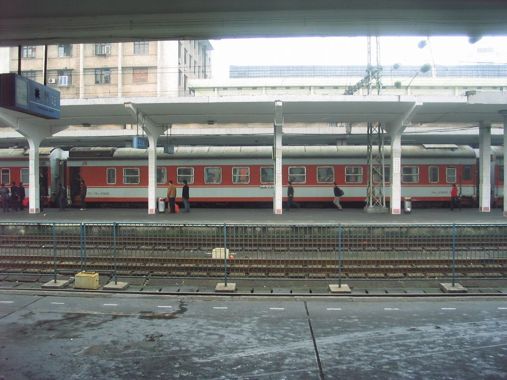 株洲站-站台 Platform of Zhuzhou Station